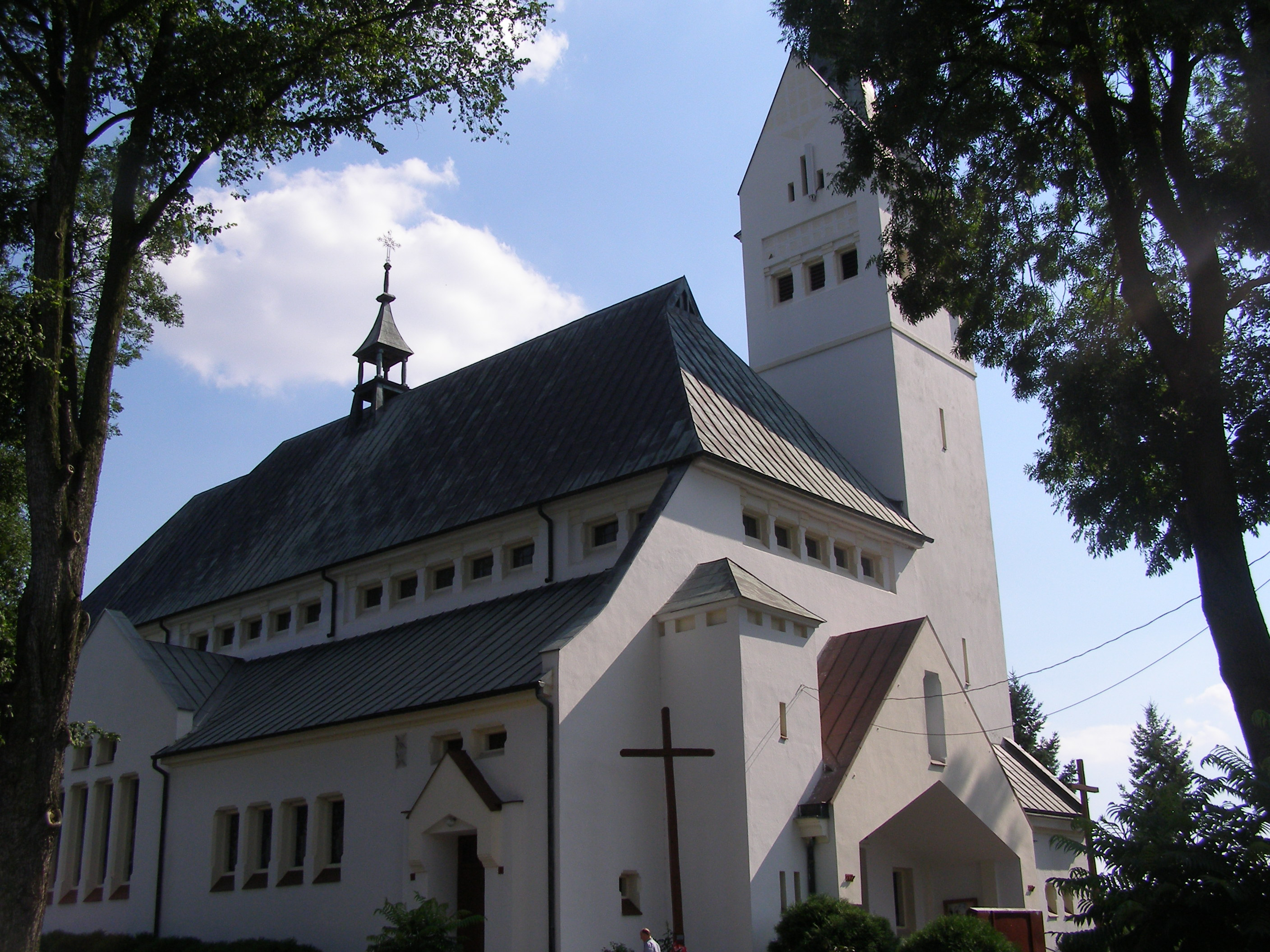 Church in Psary (Turek district, Poland)